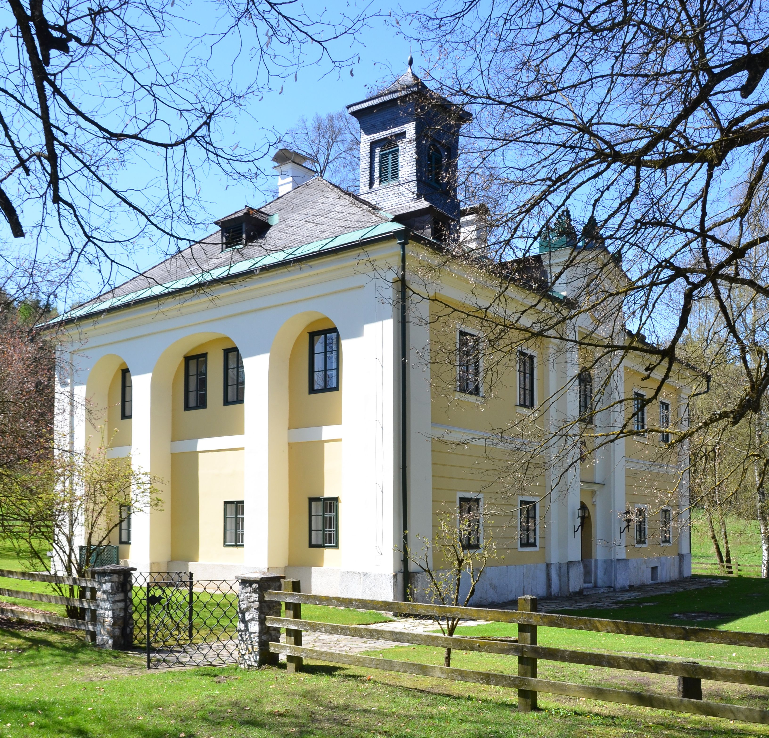 Castle in Dietrichstein #1, municipality Feldkirchen in Kärnten, district Feldkirchen, Carinthia, Austria, EU